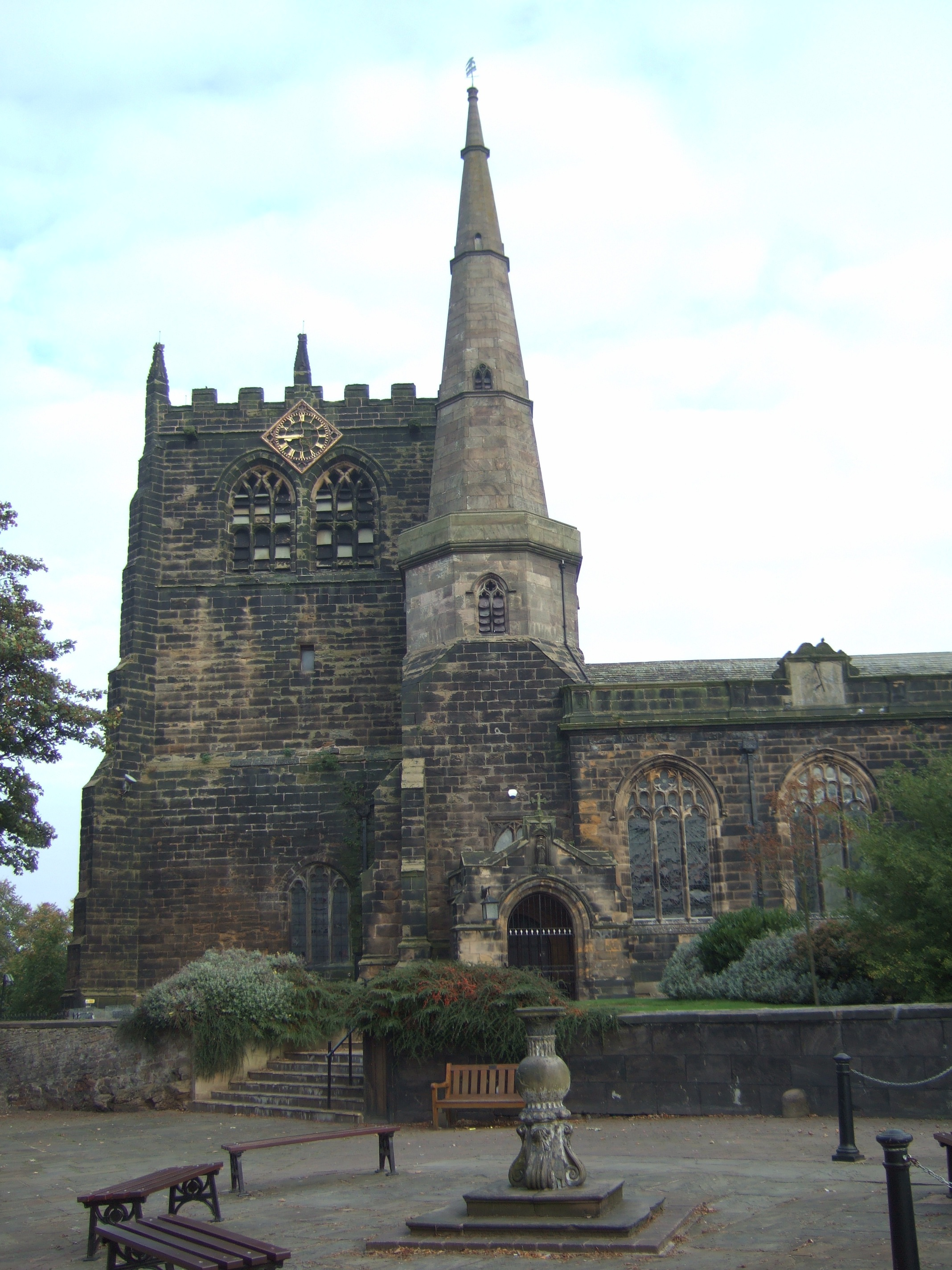 Ormskirk Parish Church (St. Peter & St. Paul), in Ormskirk, Lancashire, England. It is one of only three parish churches in the whole of England to have both a tower and a spire, and unique in having both at the same end of the building.